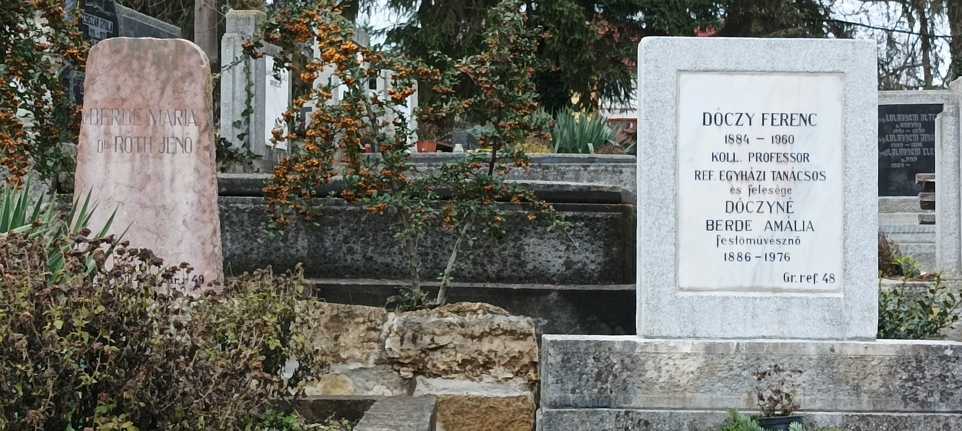 Graves of Mária Berde writer (1889-1949) and Amál Dóczyné Berde painter (1886-1976)